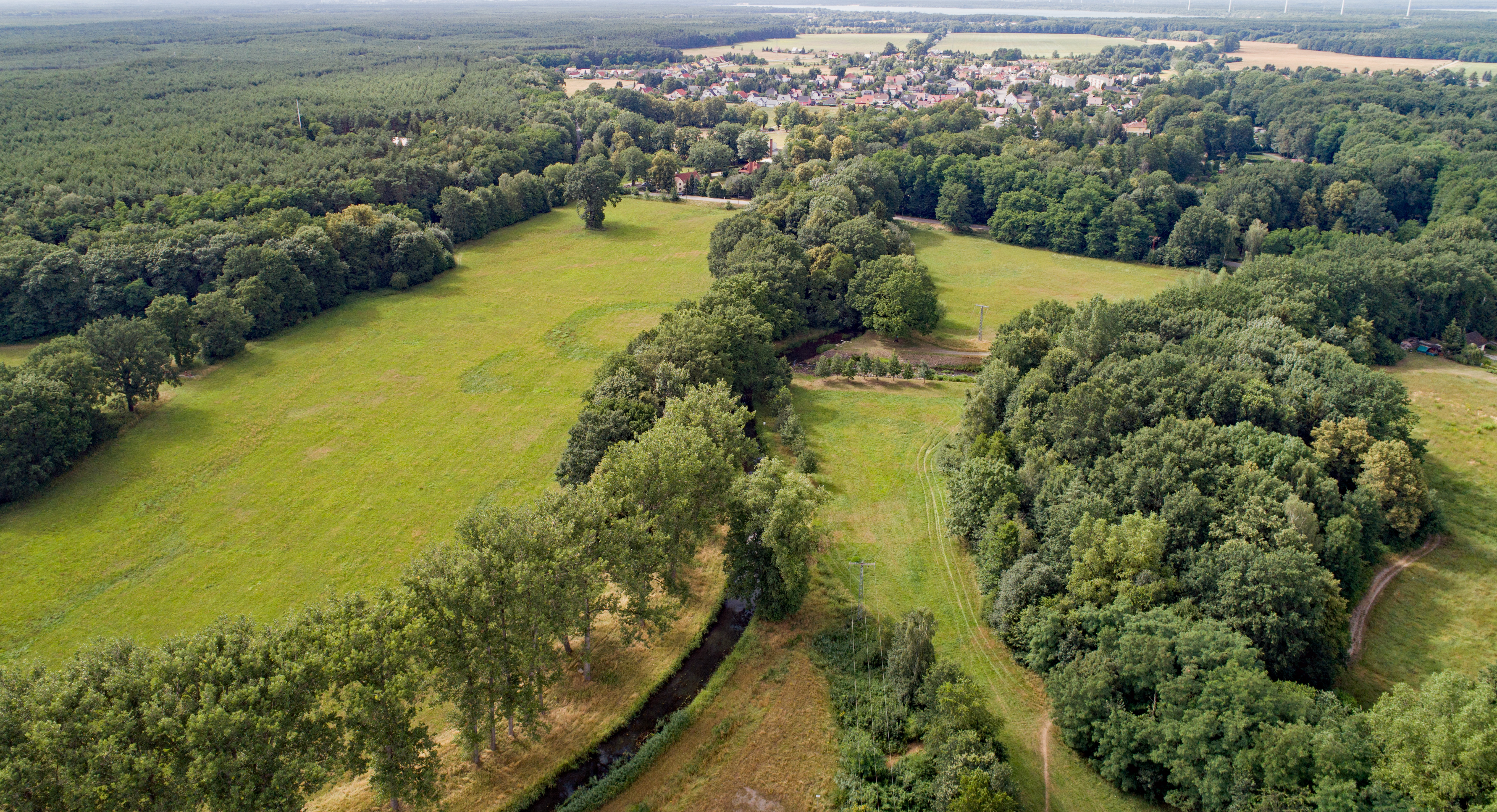 Kleine Spree near Weißkollm (Lohsa, Saxony, Germany) Hornjoserbsce: Powětrowy wobraz Małeje Sprjewje blisko Běłeho Chołmca